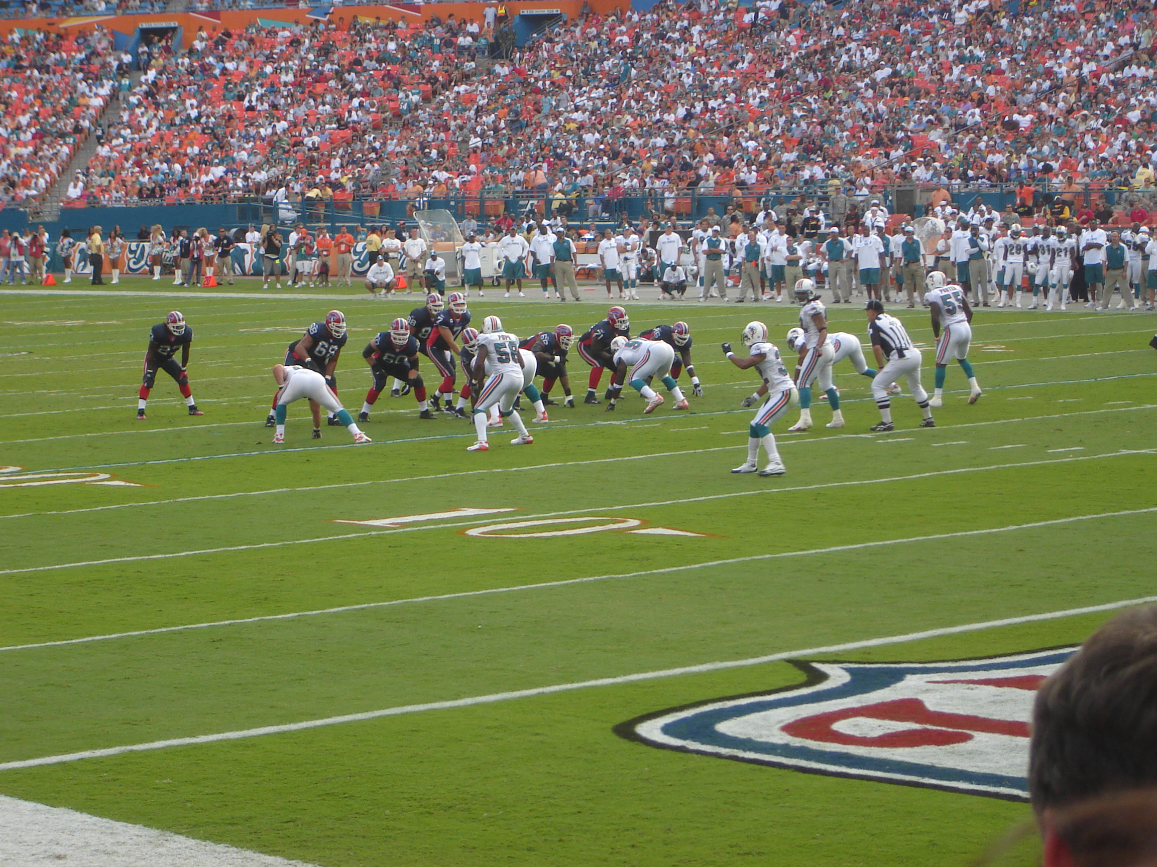 Dolphins vs. Bills 11/11/07